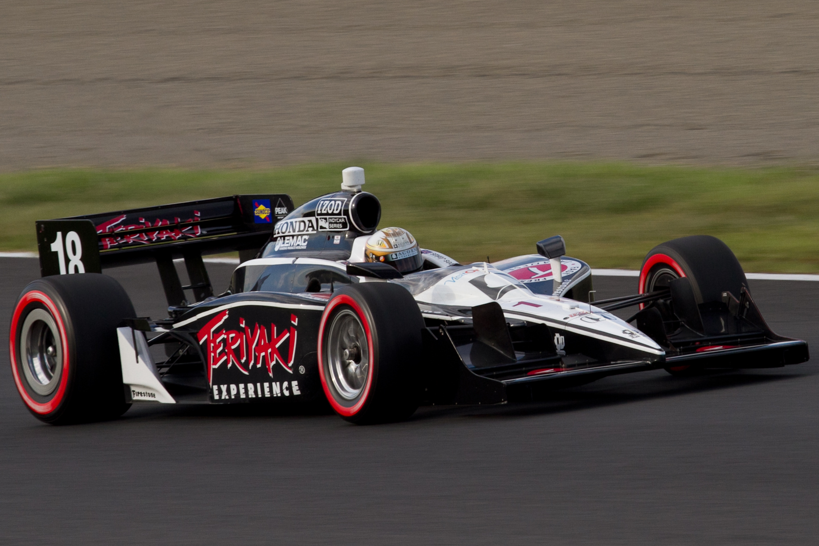 IndyCar Series 2011 Rd.15 Indy Japan 300: James Jakes (Dale Coyne Racing)